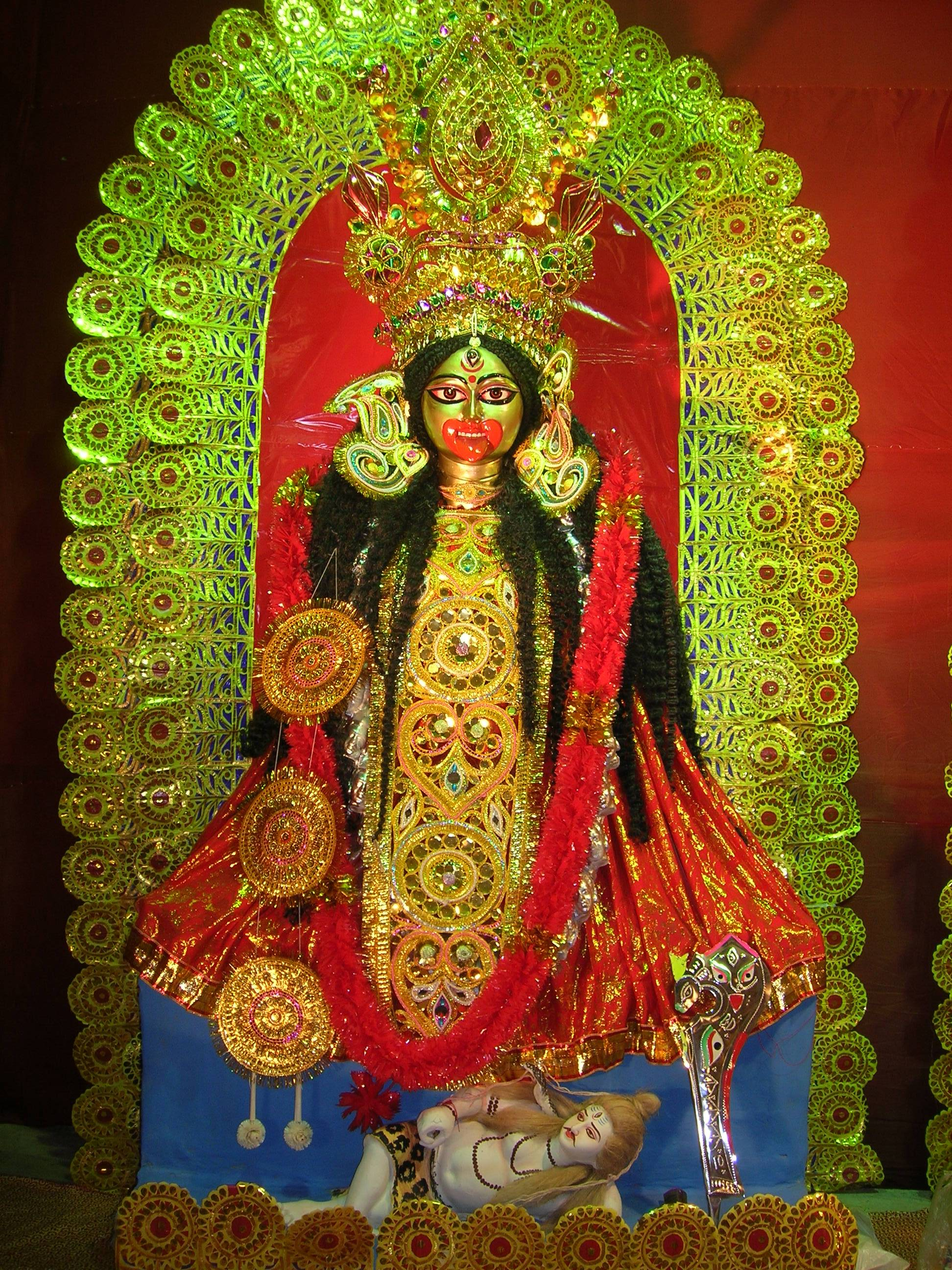 A Replica of the Tarapith Temple Tara at a Kali Puja Pandal at Behala, Kolkata